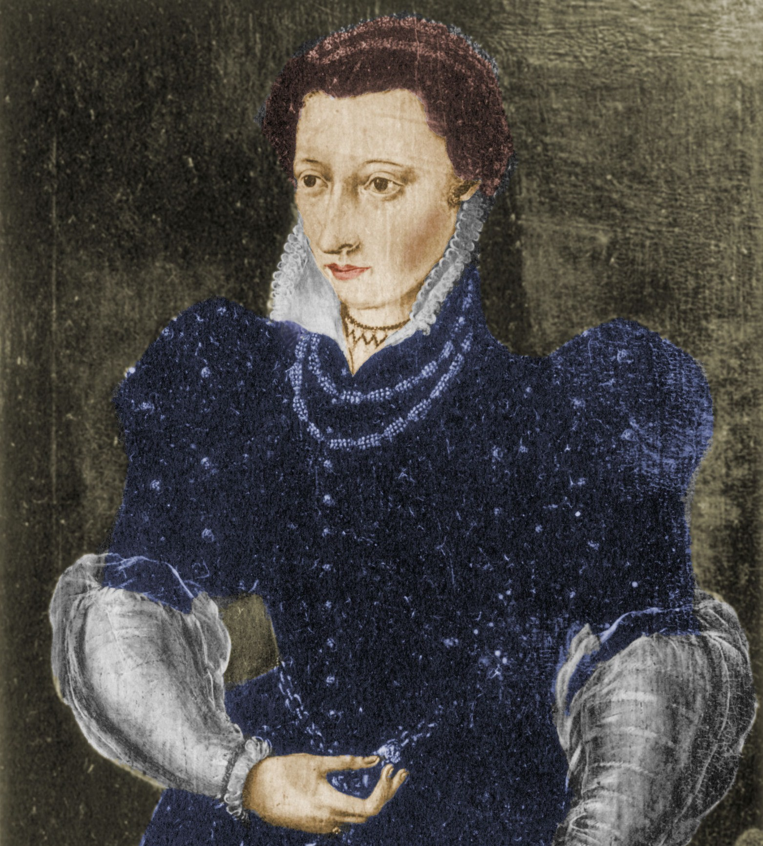 Idelette de Bure, same as this?